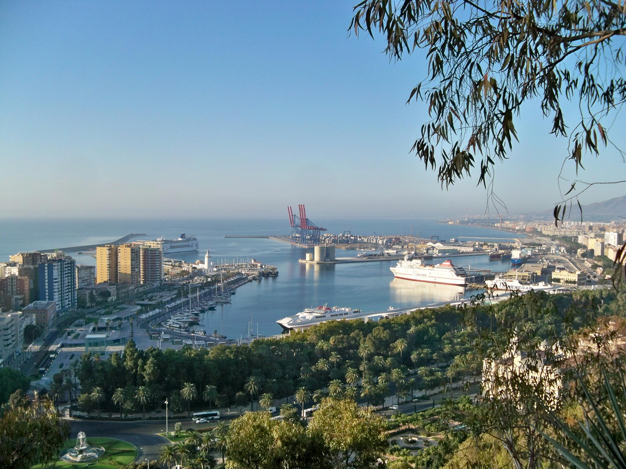 Port of Málaga, Spain.